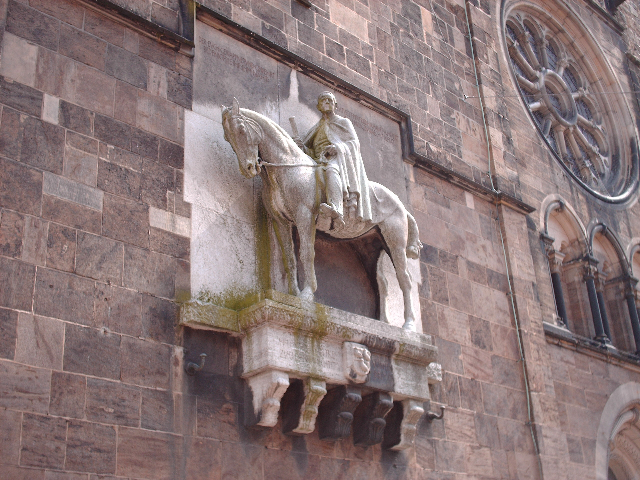 Unser Lieben Frauen Kirche (Church of our Lady) in Bremen, depicting the statue of Helmuth von Moltke the Elder, sculpted by Hermann Hahn - Built on the site of Bremen’s oldest parish church from the 11th century - Rebuilt as a Westphalian-style Gothic hall church in the 13th century